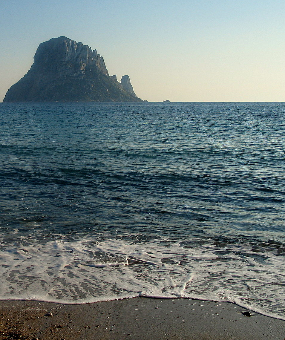 Es Vedrà as seen from Cala d'Hort, on the isle of Ibiza